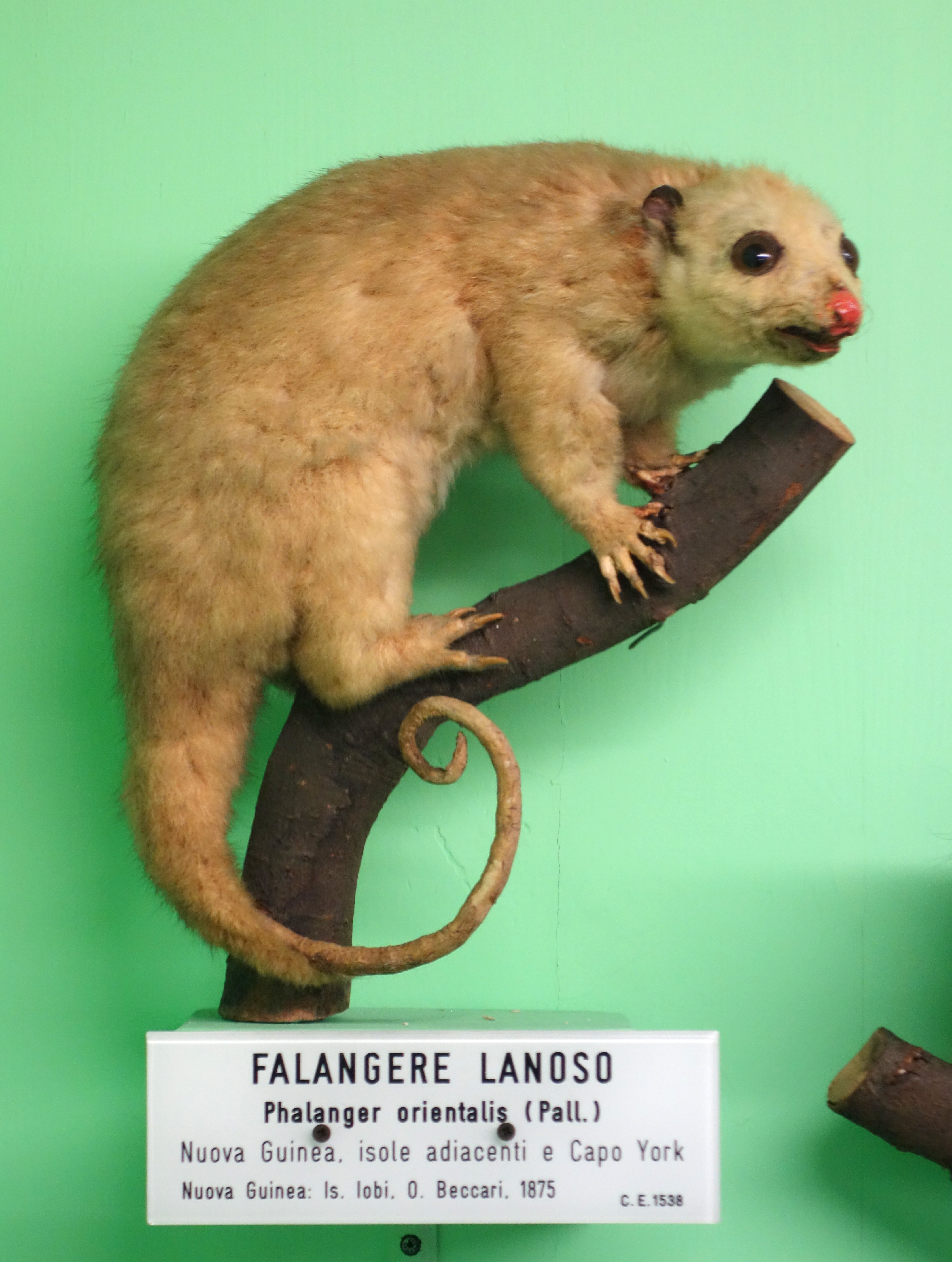 Exhibit in the Museo Civico di Storia Naturale di Genova, Via Brigata Liguria, 9, 16121, Genoa, Italy.